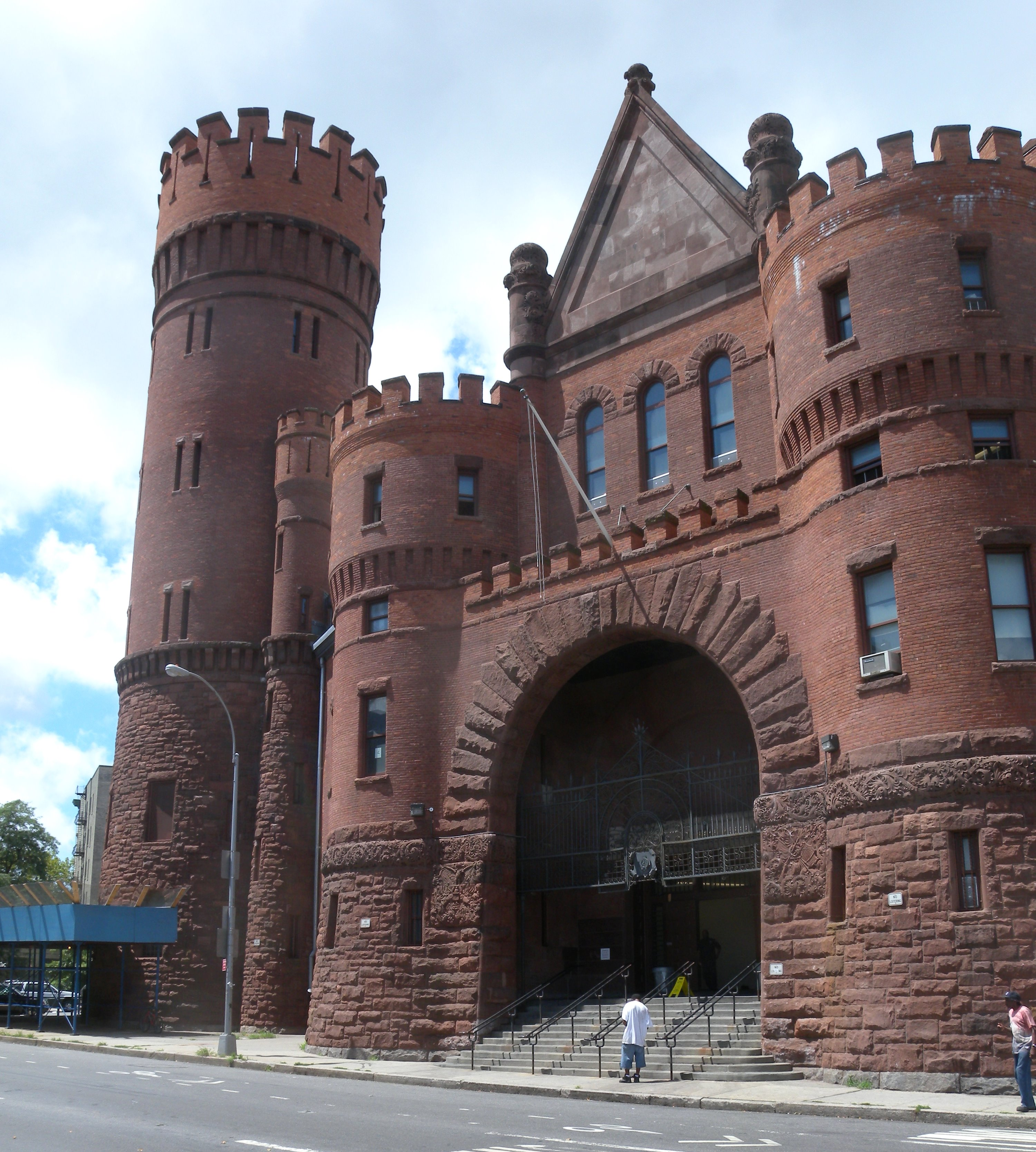 Looking southwest across Bedford Avenue at 23d Regiment Armory front gate on a sunny midday.